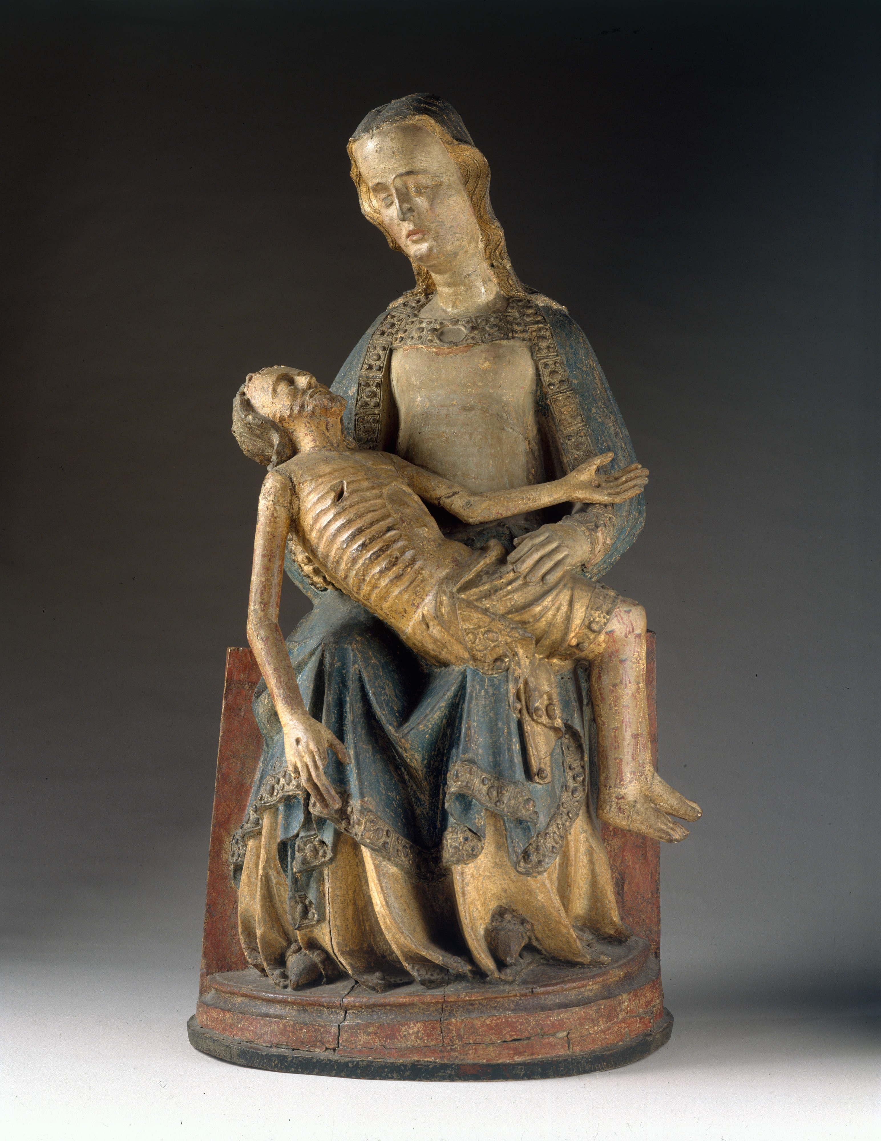 German; Statue; Sculpture-Wood